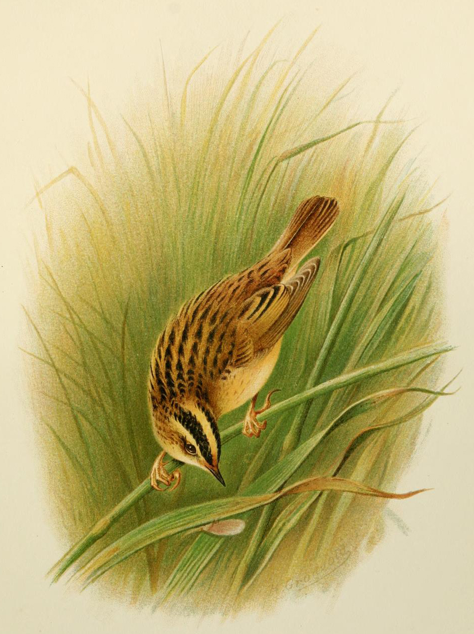 An illustration of a male Aquatic Warbler by Henrik Grönvold